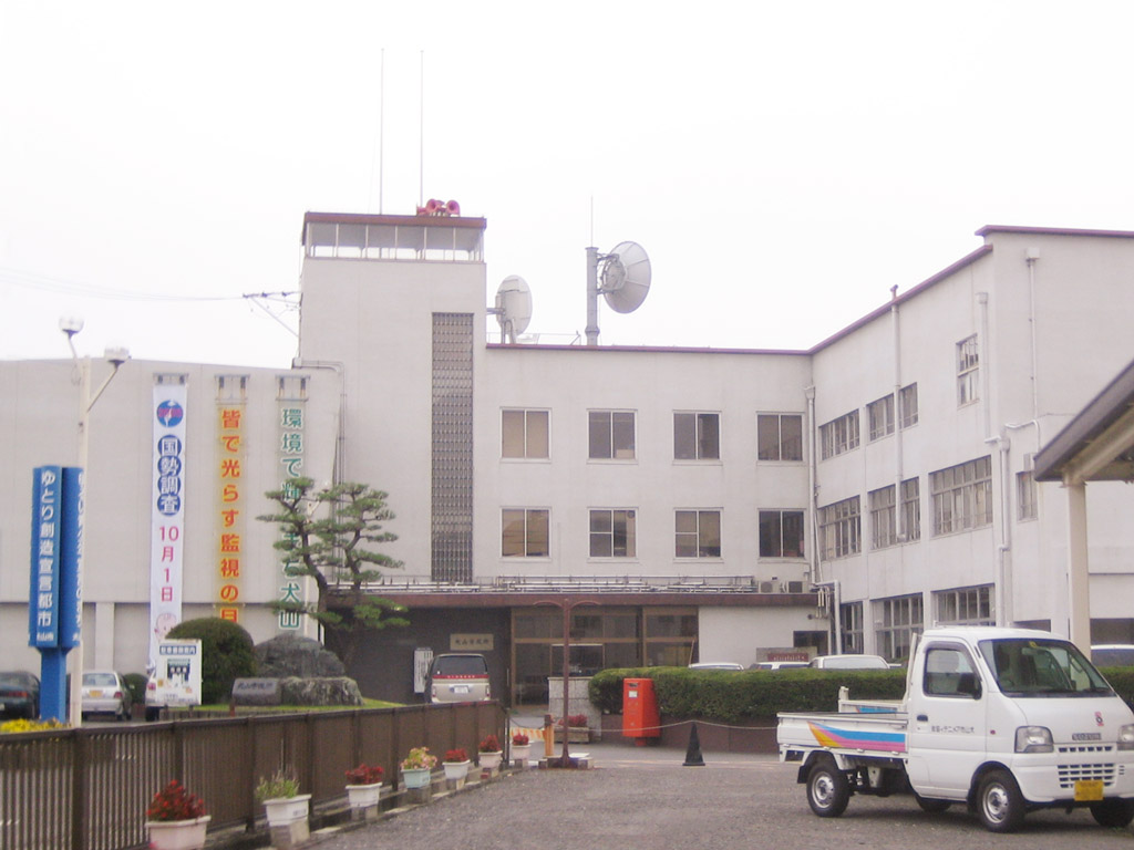 Inuyama City Office, Aichi prefecture, Japan.